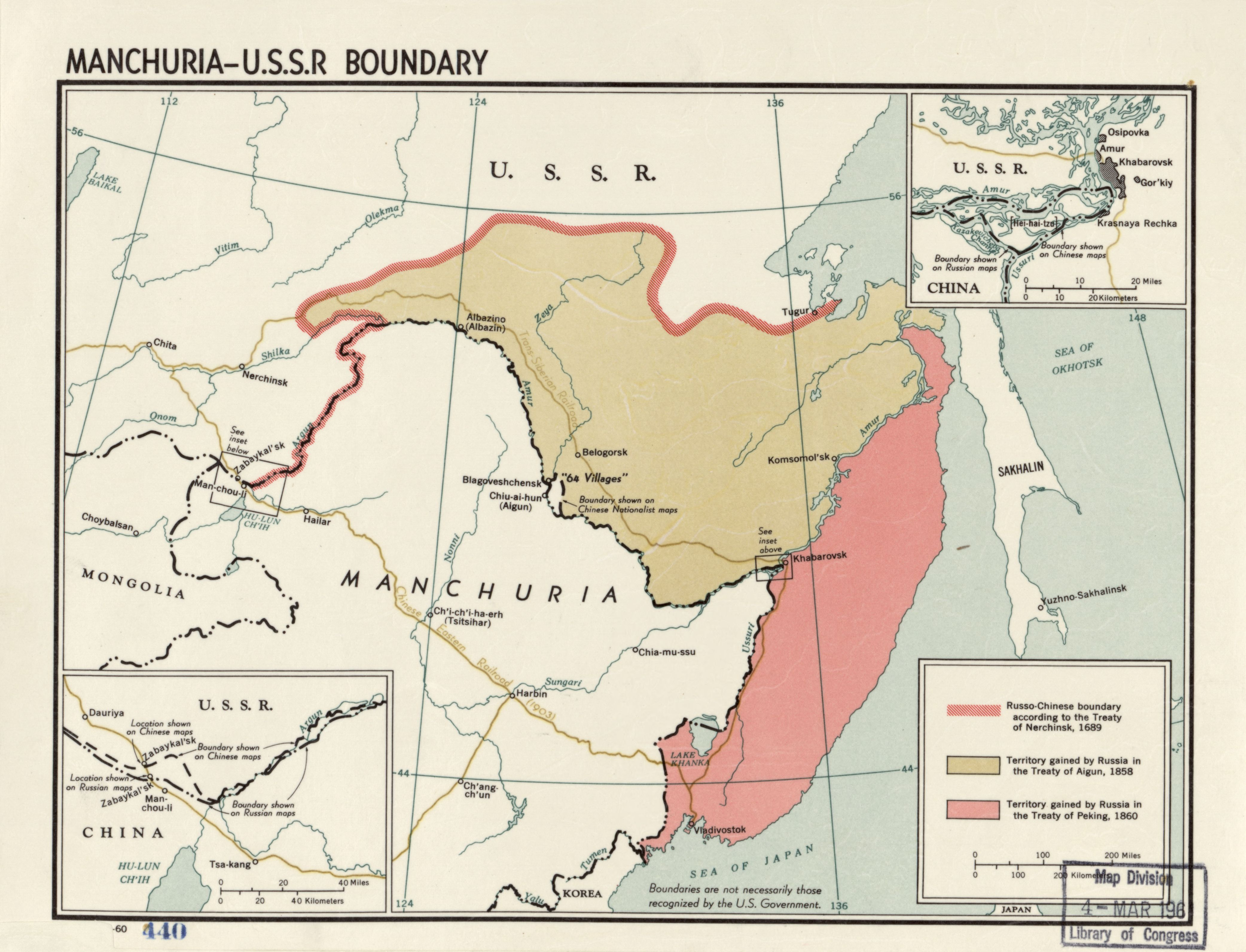 Includes 2 insets. LC copy mounted on cloth backing. LC copy stamped on: "440" In the bottom left corner: "-60." Available also through the Library of Congress Web site as a raster image.